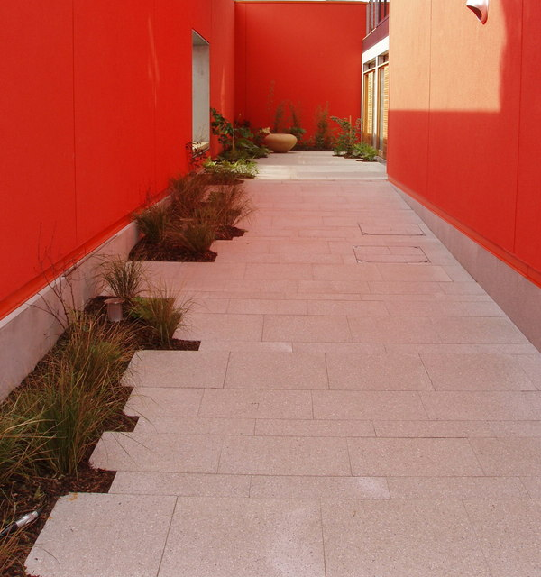 Entrance courtyard of Maggie's Centre London